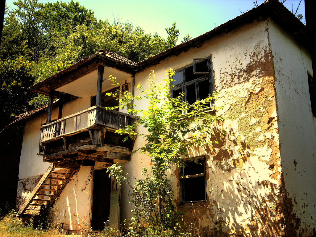 Desivojca